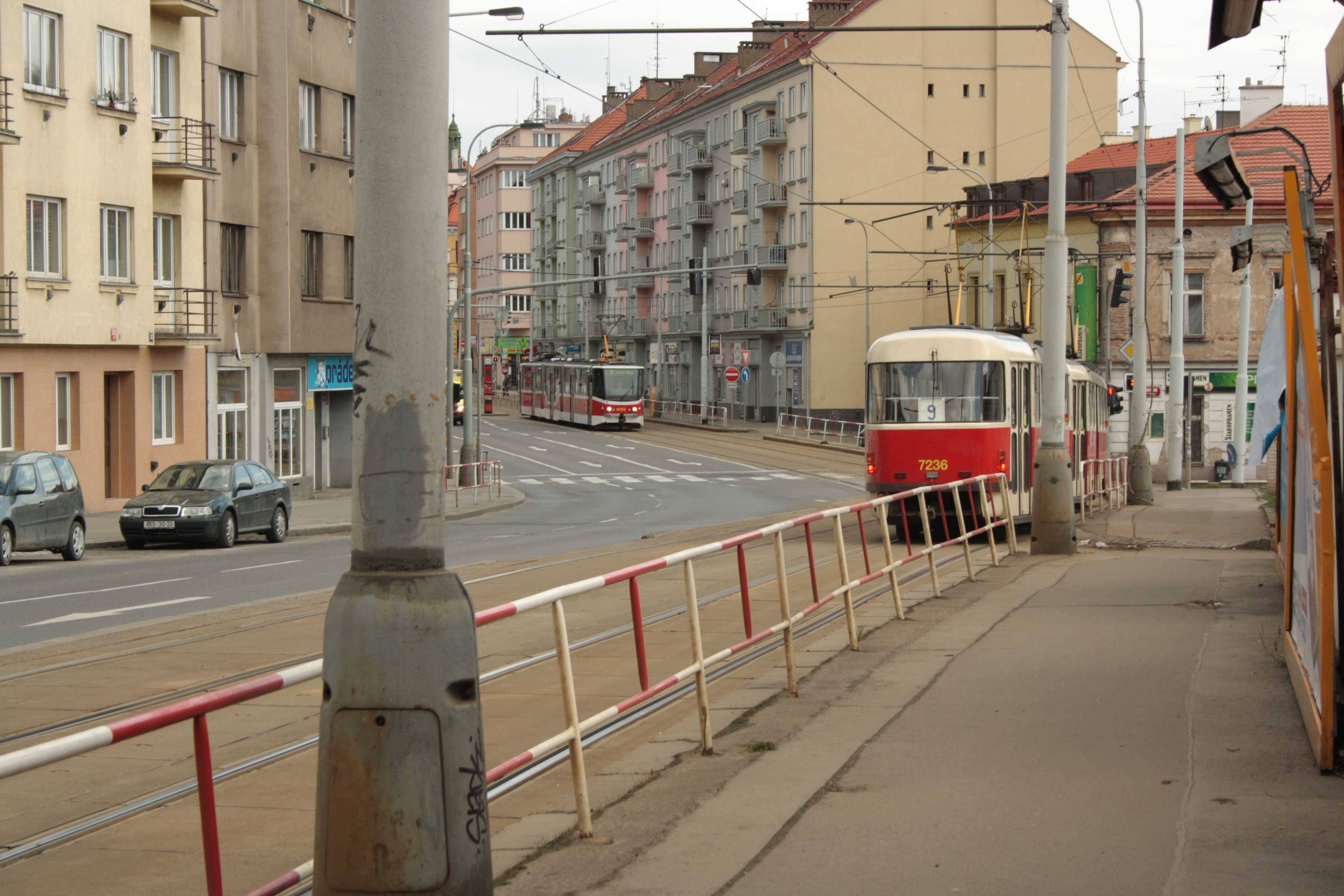 Tram track at Plzeňská street; Prague-Košíře and Prague-Smíchov, CZ